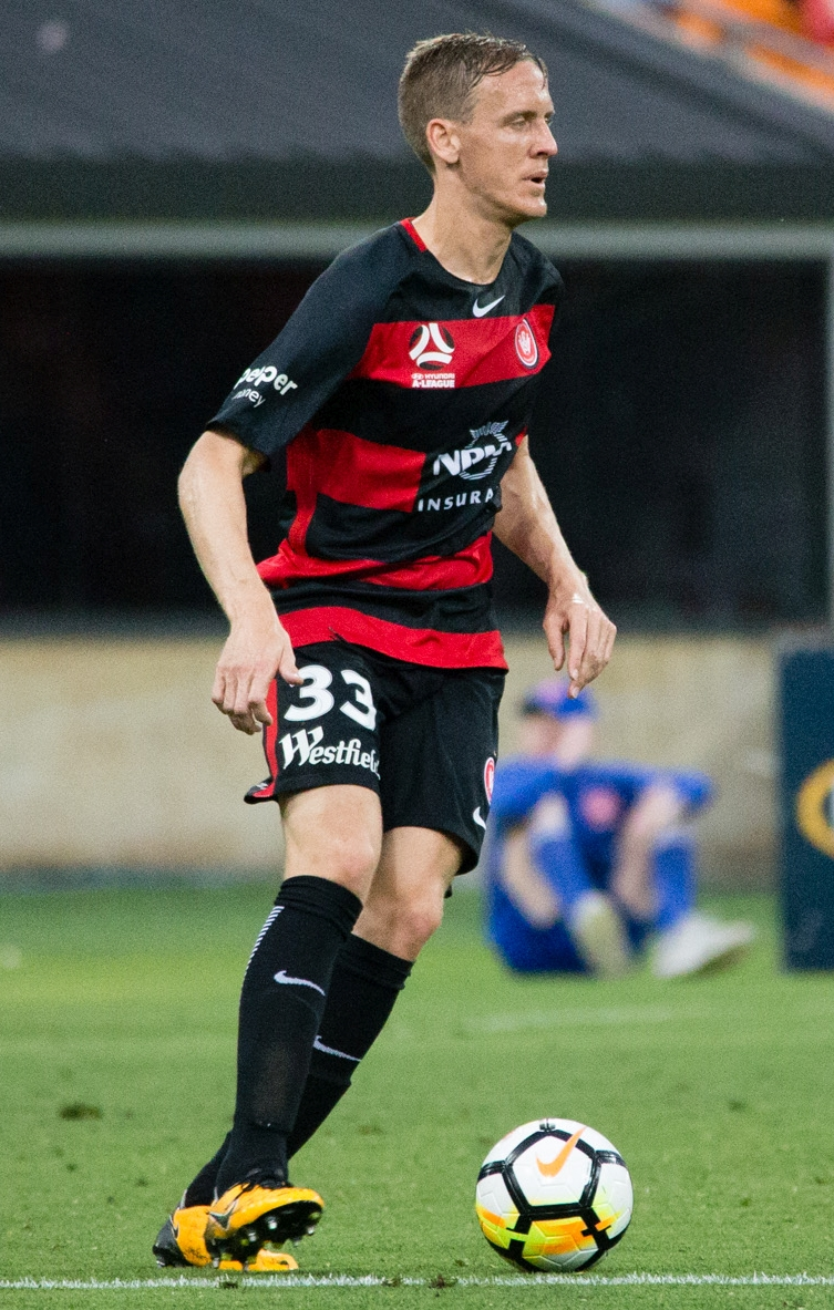 Thwaite now plays for Western Sydney Wanderers (2017)